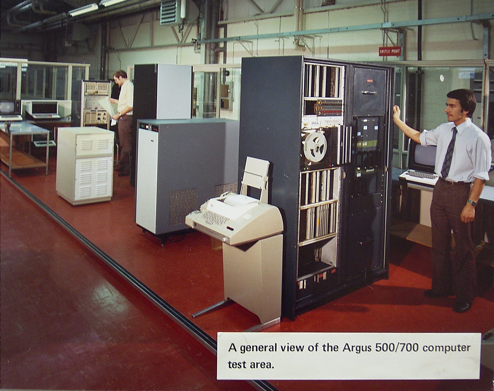 Ferranti Argus 500 Computer System with Burroughs 2Mbyte Hard Disc